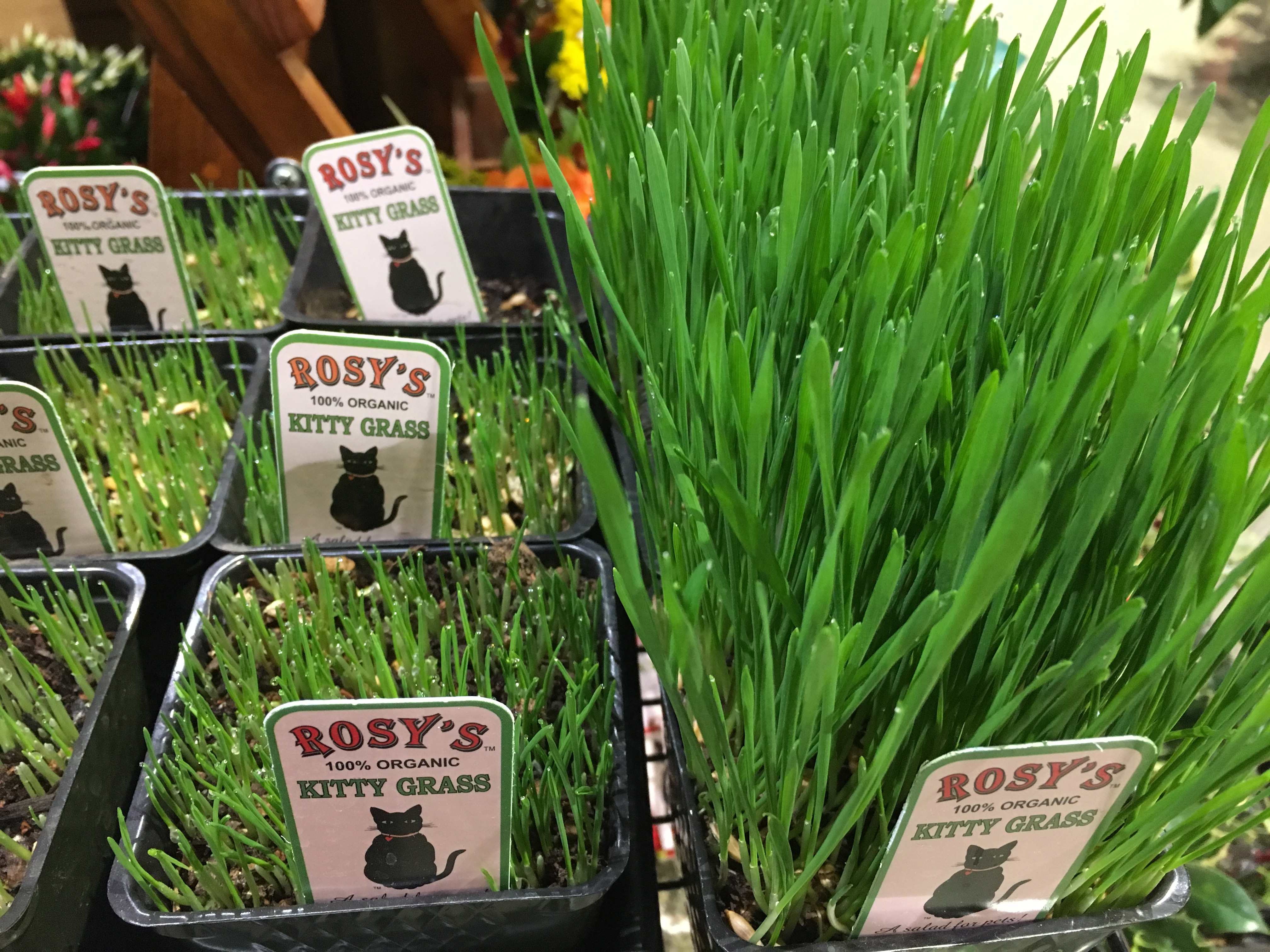 Dactylis glomerata